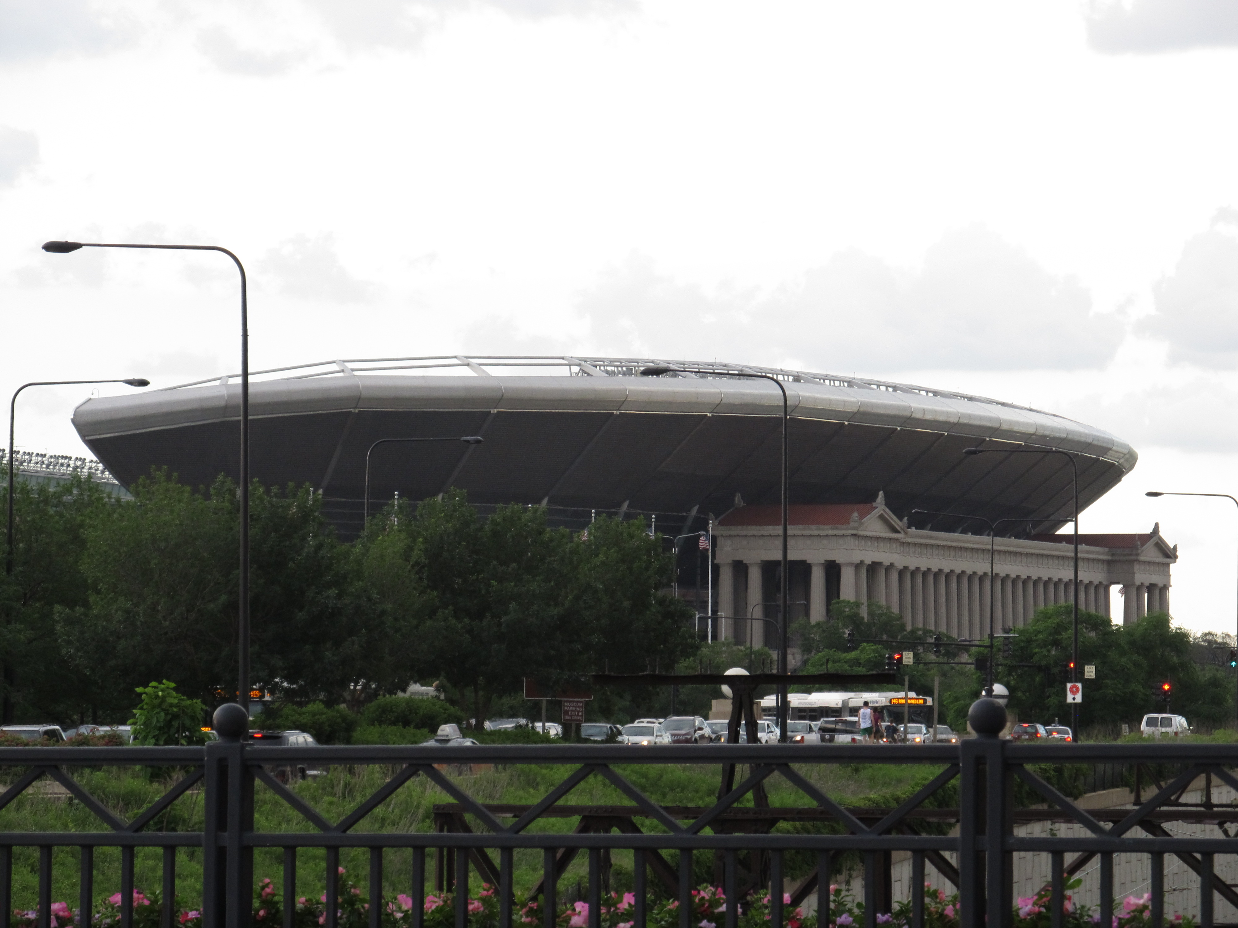 Soldier Field as seen from Lake Shore Drive, Chicago, Illinois